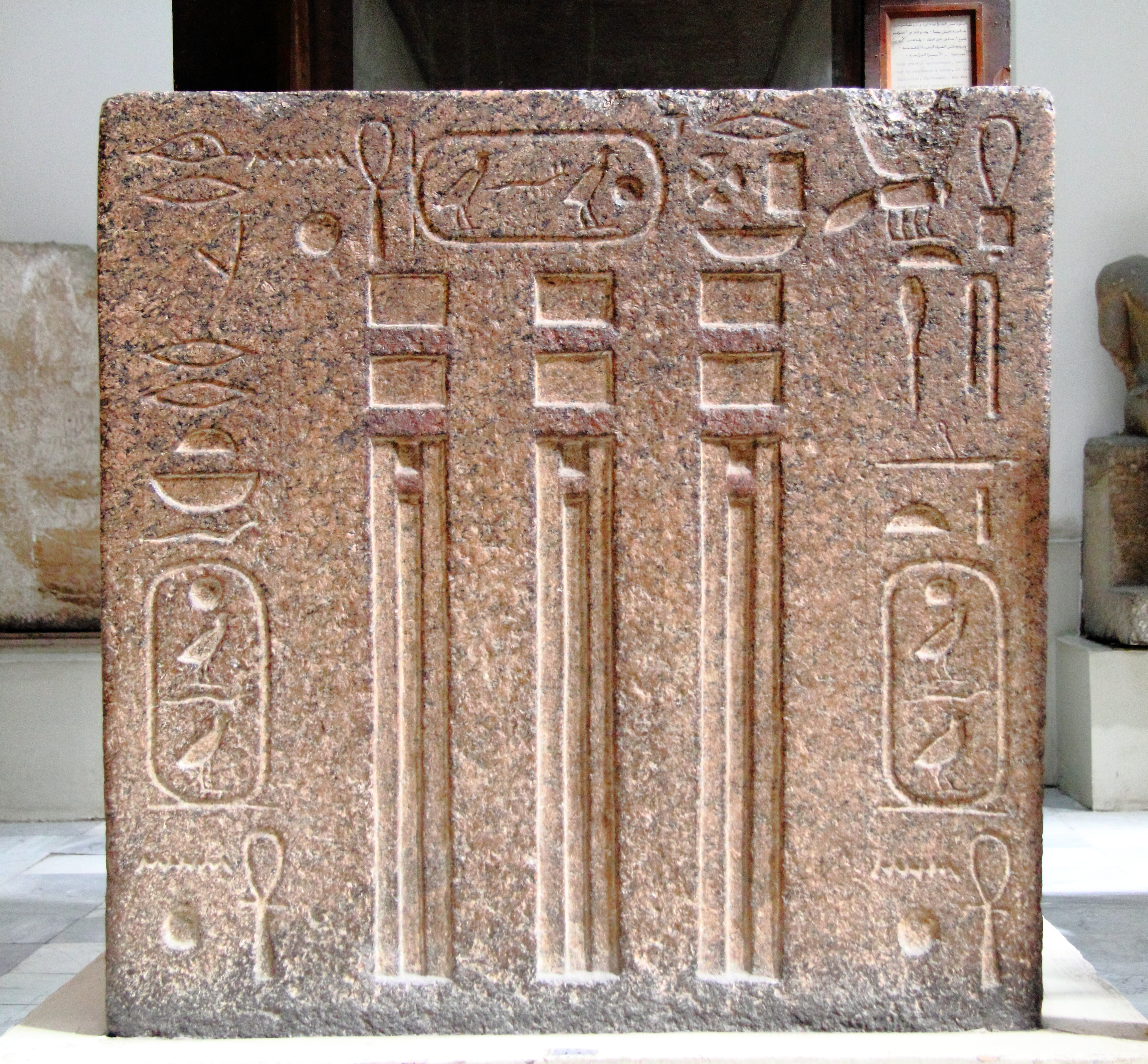 Egyptian Museum, Cairo: sarcophagus of the ancient Egyptian official Khufu-ankh from Gizeh necropolis, 4th Dynasty, Old Kingdom of Egypt